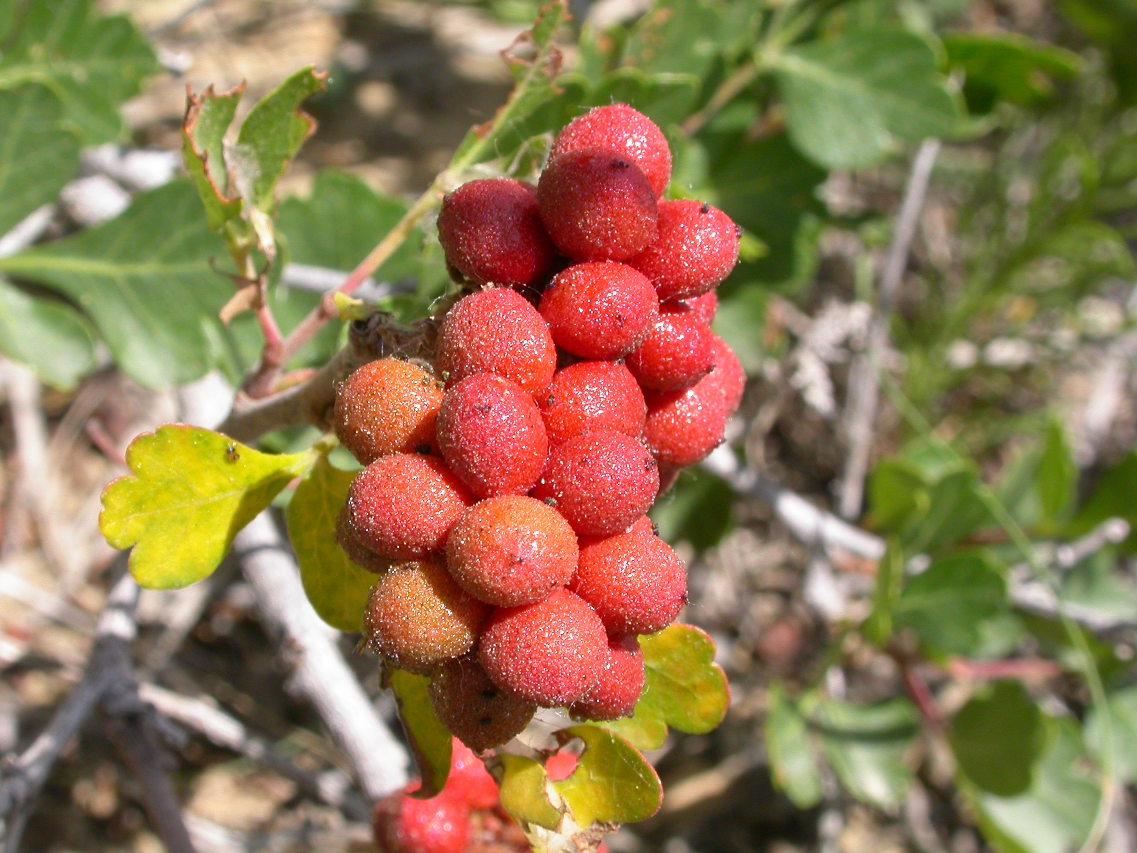 Rhus trilobata is common in dry open settings.